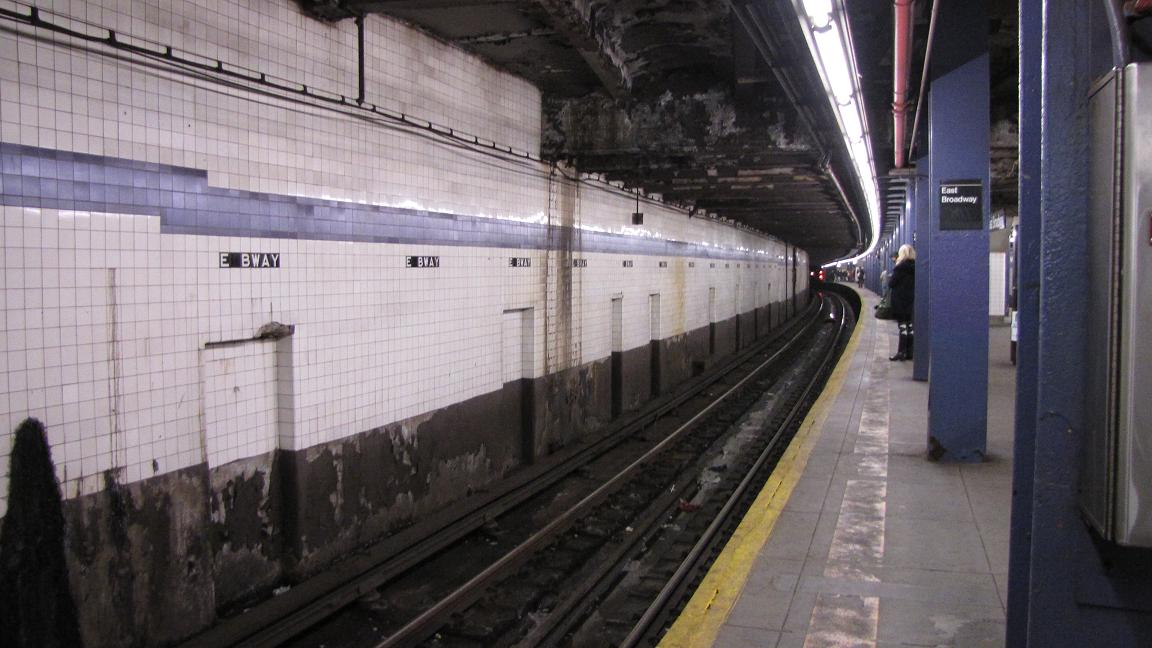 East Broadway Subway Station at East Broadway, New York City